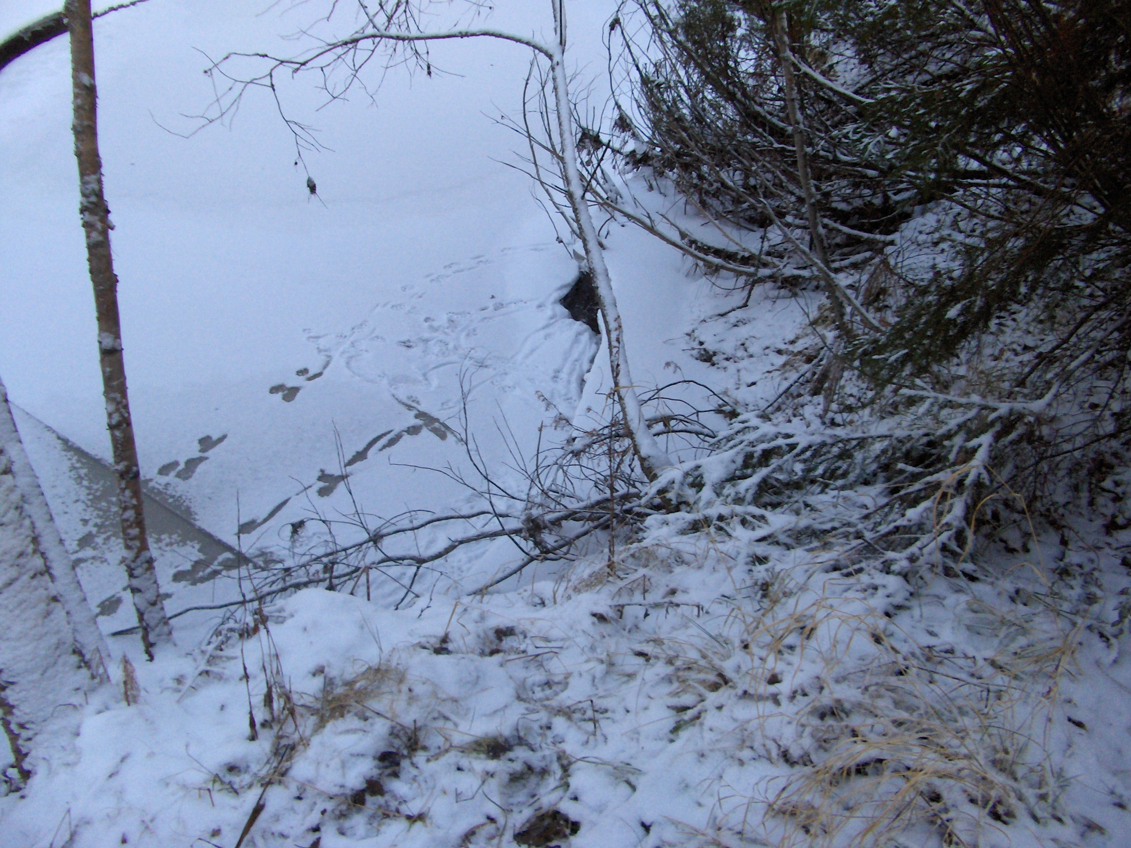 Three otters' trail on river ice in Pohjajoki, Kajaani, Finland.